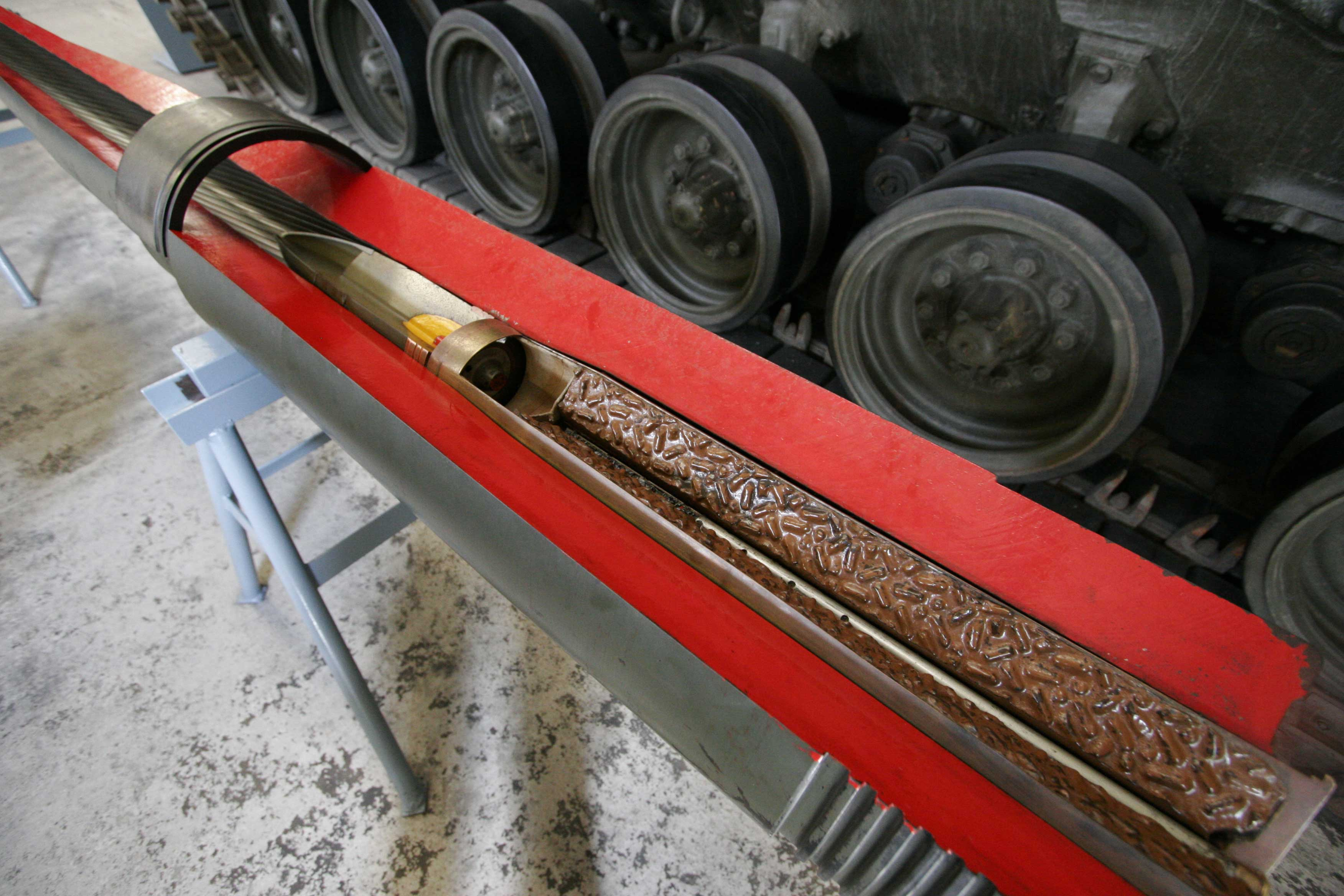 L7 105mm tank gun Cut model Chamber room